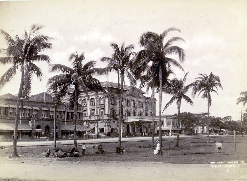 Photograph of the Strand Hotel in Rangoon (Yangon), Burma, taken by Philip Adolphe Klier in the 1890s. The hotel was built in 1896 for the Sarkies Brothers, founders of two other famous colonial hotels, Raffles Hotel in Singapore and the Bangkok Oriental. The Strand was advertised in Murray’s Handbook of 1911 as the “Leading Hotel in the East” and was patronised by many distinguished guests. It is a white stucco building on Strand Road facing the Rangoon River. This is a general view from the street of the main façade of the hotel with palm trees in the foreground. Klier, of German origin, began as a professional photographer in Moulmein in Lower Burma in 1871. In a few years he had built up a considerable reputation and based himself in Rangoon. He took hundreds of photographs, mostly for Europeans, both as a memoir of their stay in Burma and to feed the great interest in pictures of the country in Europe. He was known as a specialist in art photography and his work was published in art books. He was interested in portraying images of mosaics, woodcarving and other crafts of Burma. In fact he later became a dealer in arts and crafts such as silverware and furniture.